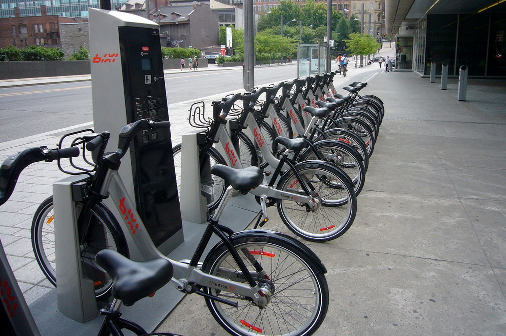 Bixi station on Saint-Laurent Boulevard